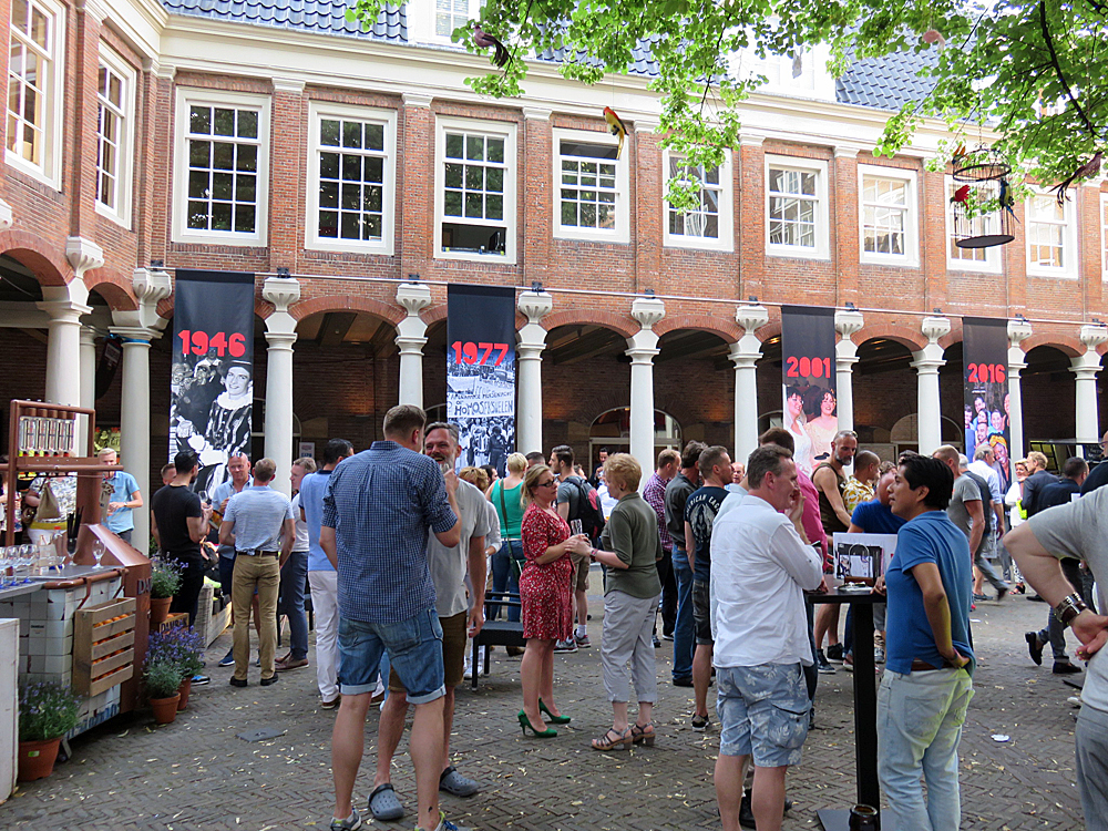 The "Shakespeare Club" in the courtyard of the Amsterdam Museum, commemorating the 70-year anniversary of the Dutch LGBT rights organization COC, July-August 2016.